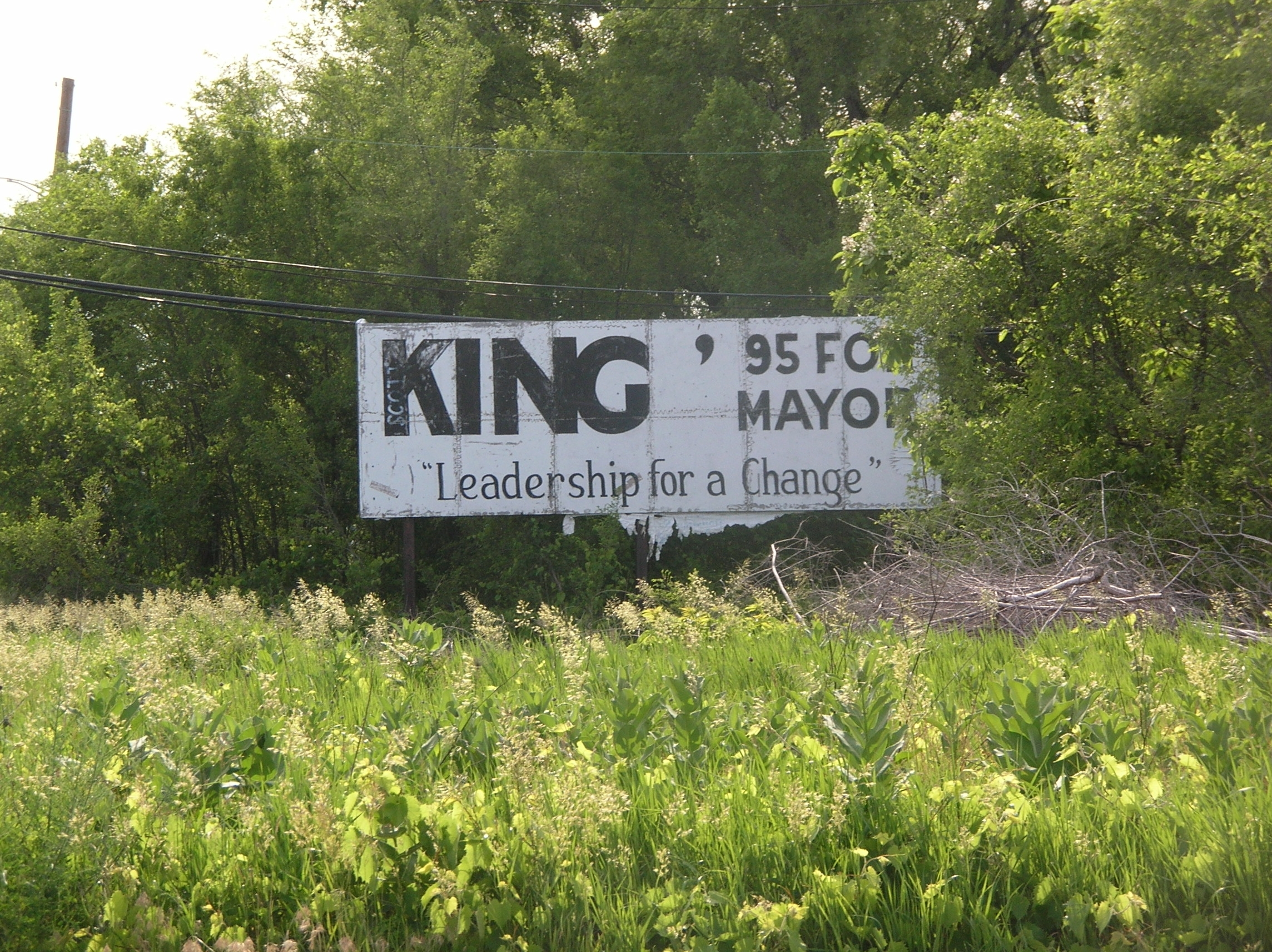 Sign for former Gary mayor Scott King's 1995 election campaign, still standing as of 2011 on US 20 in the Miller Beach neighborhood in Gary, Indiana.